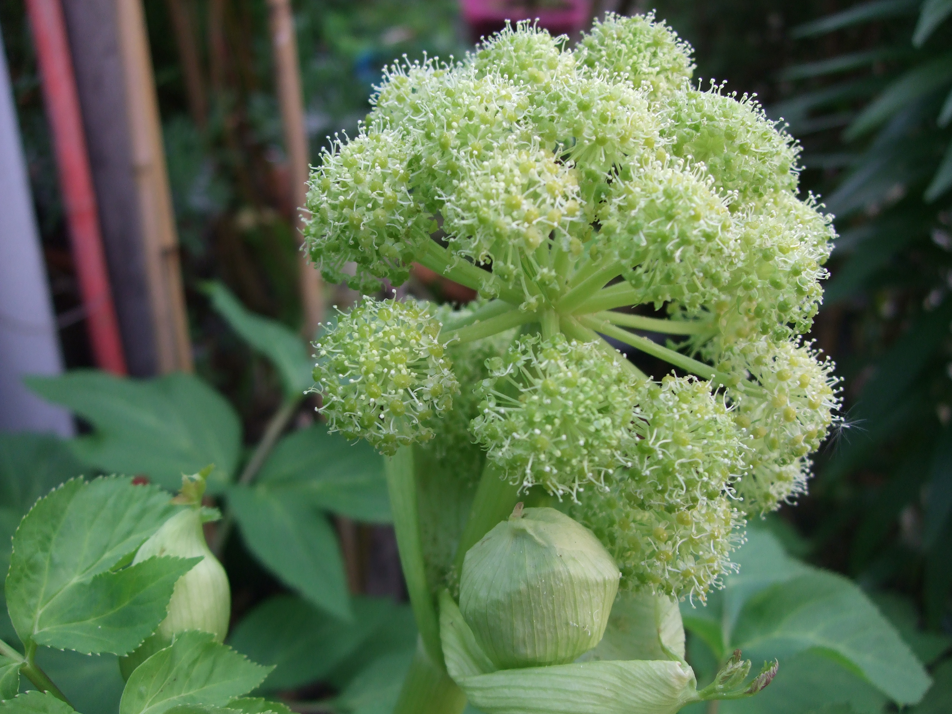 angelica archangelica inflorescence